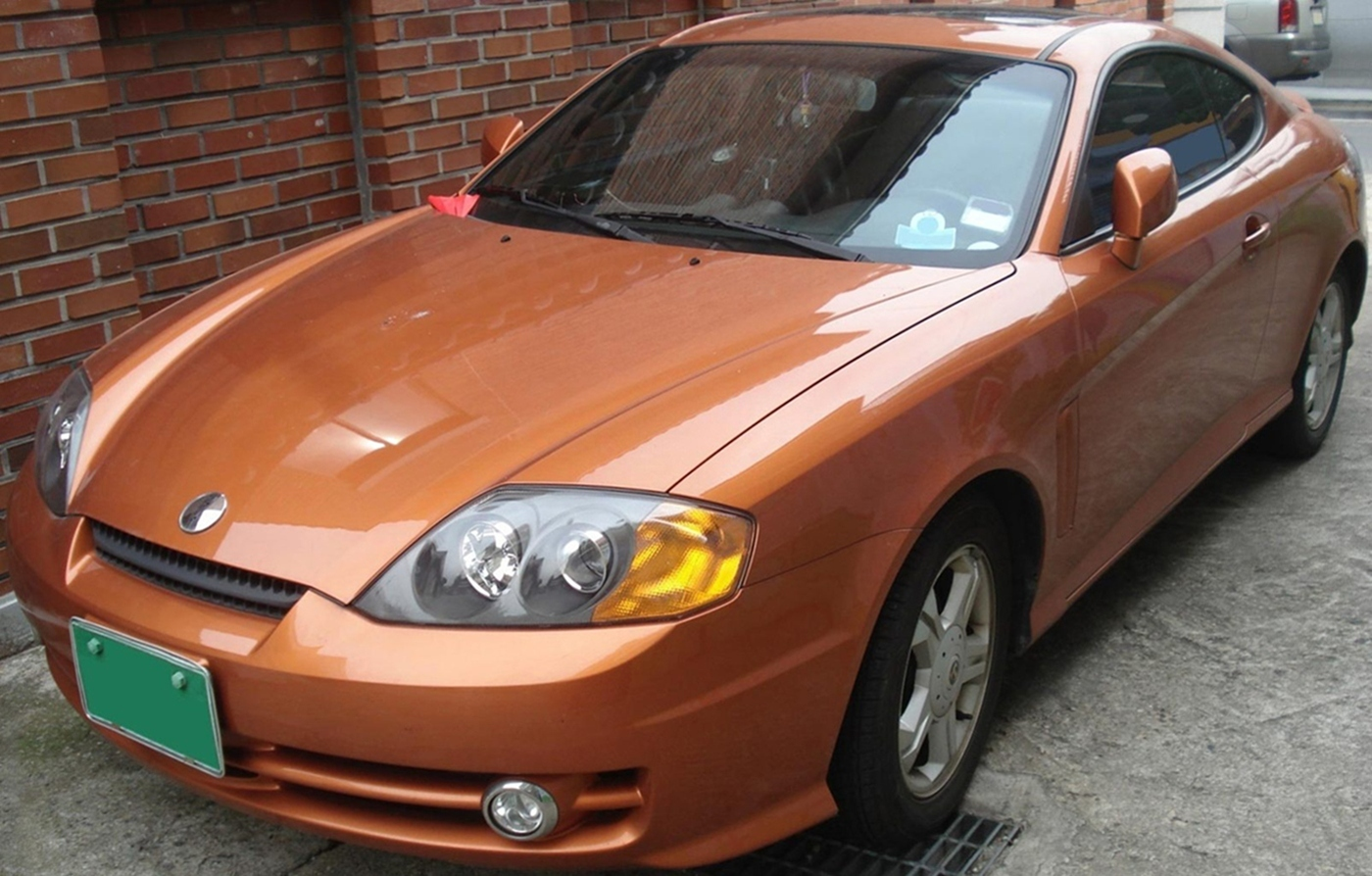 Hyundai Tuscani